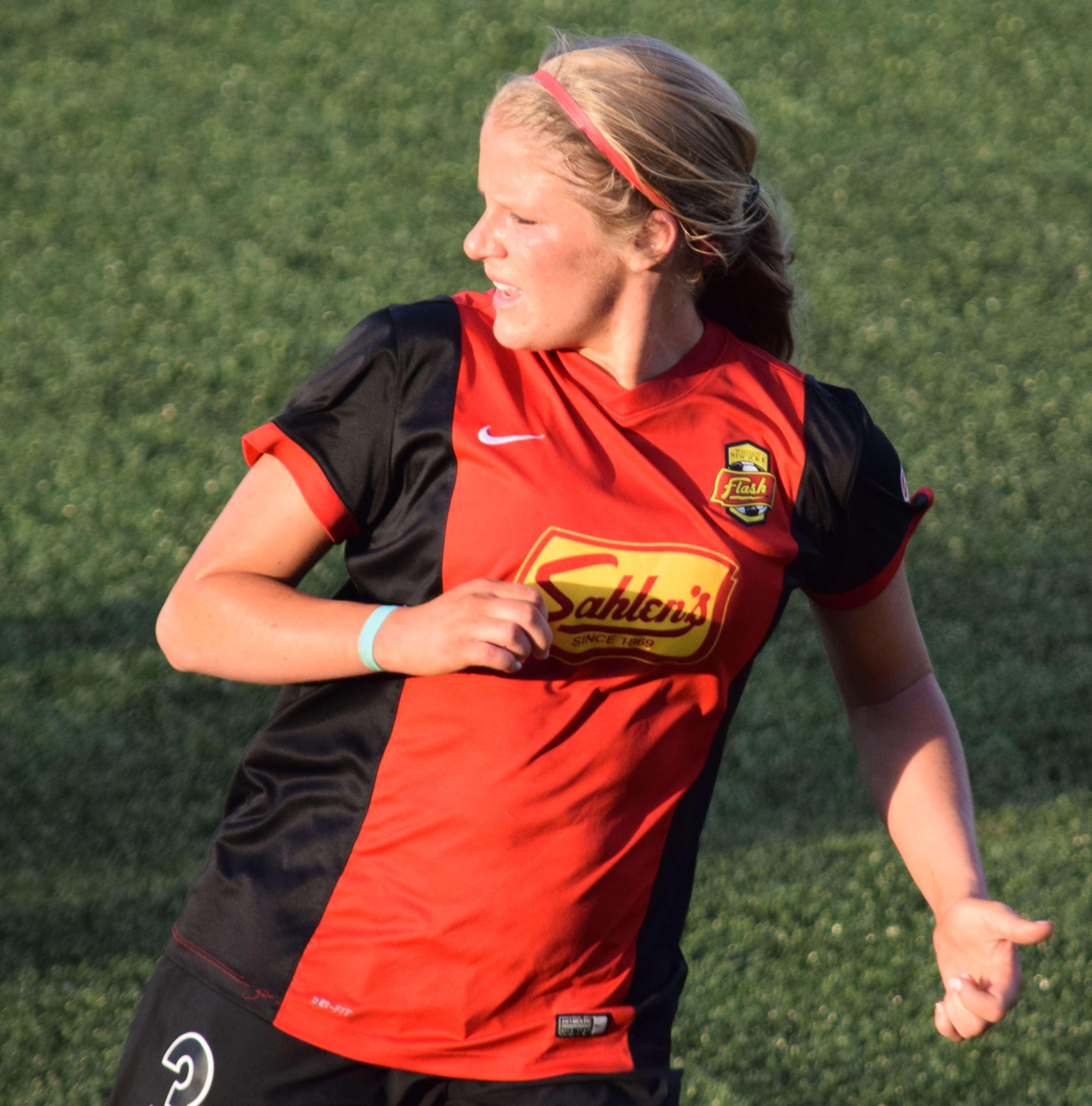 Doniak with the Western New York Flash during a match against the Orlando Pride on June 11, 2016 in Rochester, New York